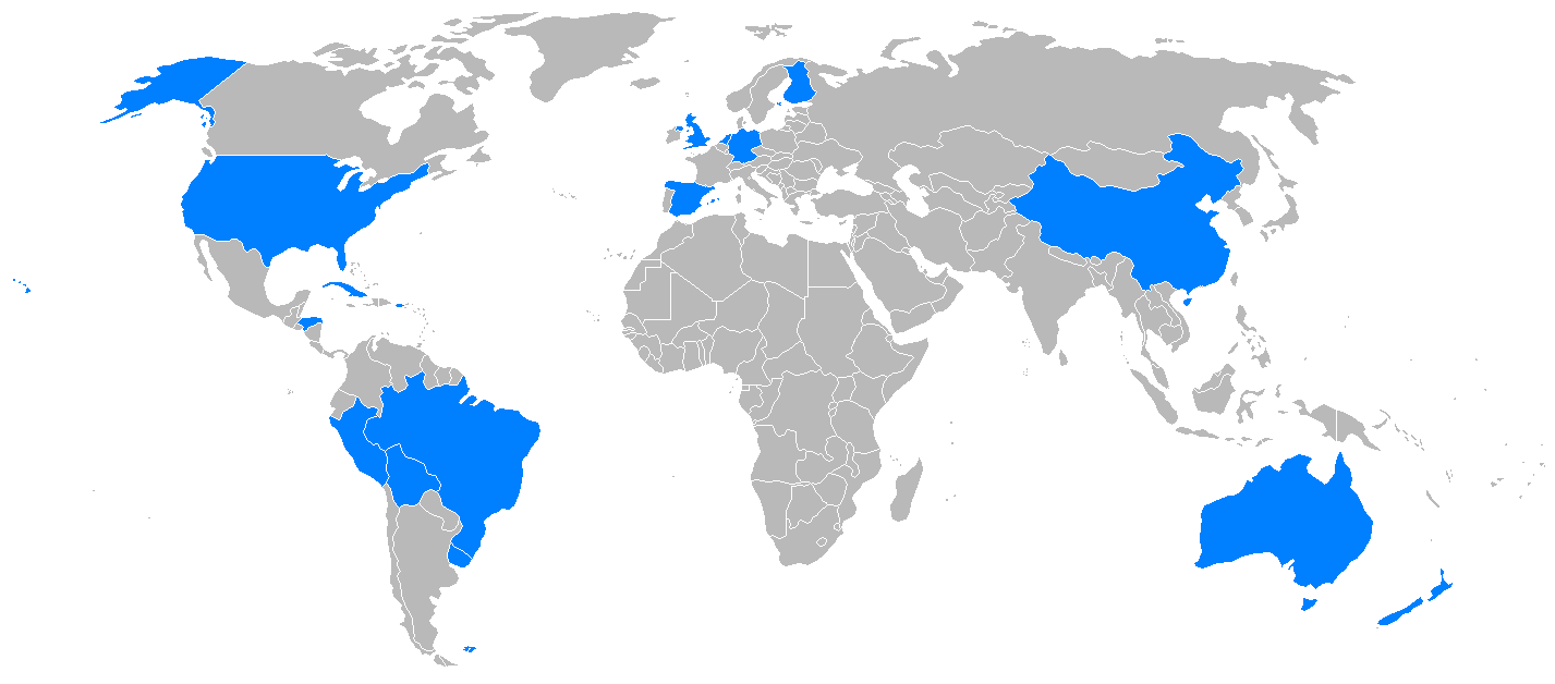 World map of Beechcraft Staggerwing operators